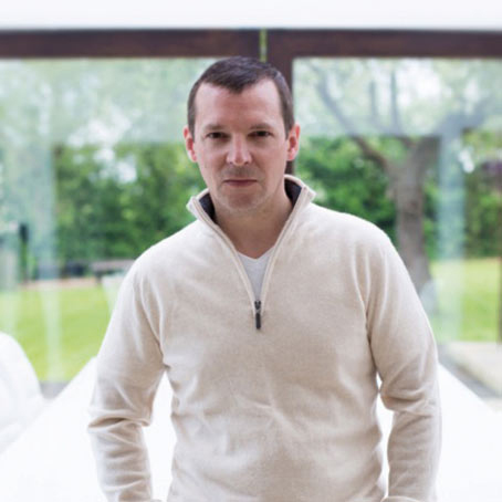 British Designer and Futurist Phil Pauley